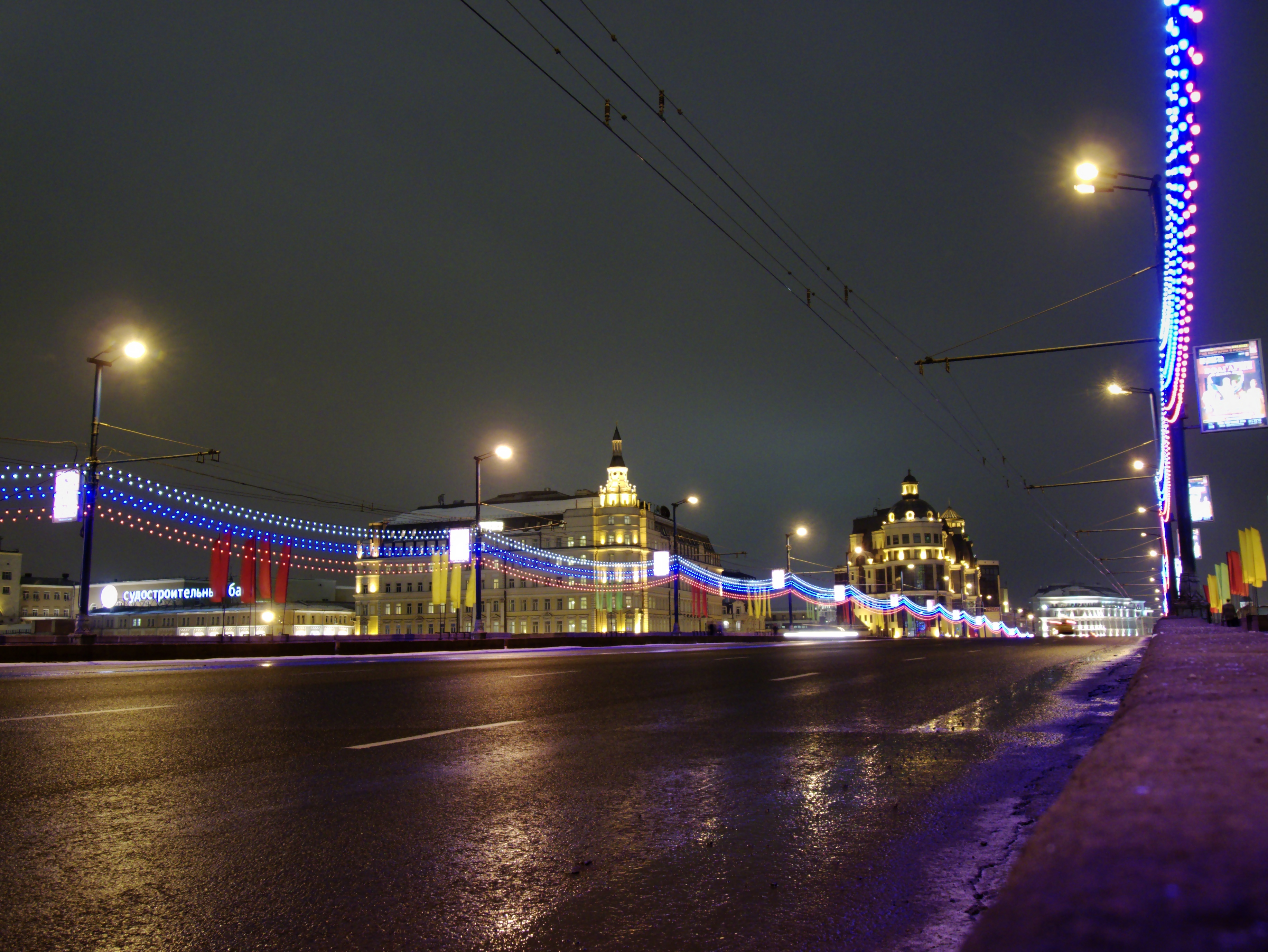 This is the bridge connecting one side of the red square to the south side, in Moscow, Russia